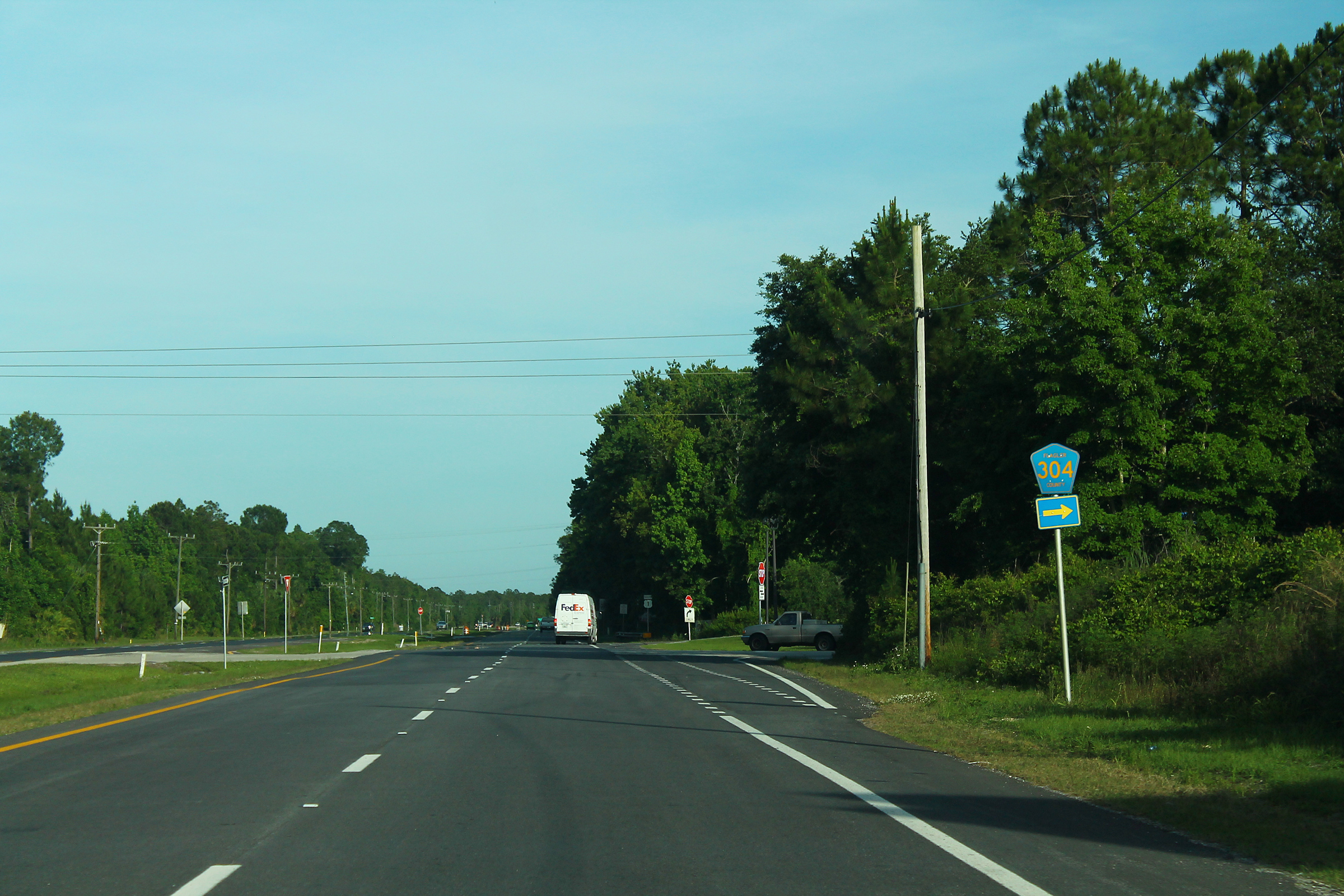 US1sRoad-CR304sign